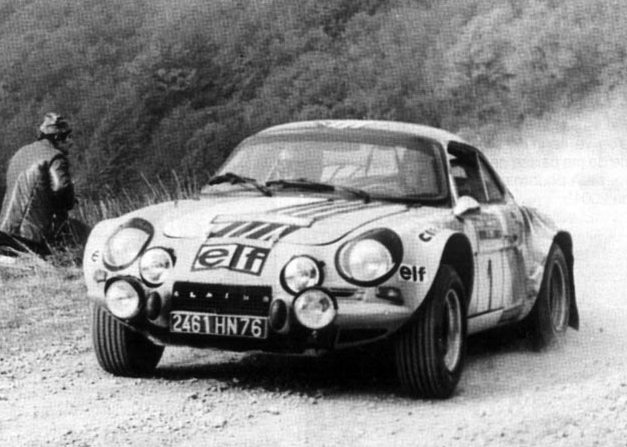 Jean-Luc Thérier and Jacques Jaubert on an Alpine-Renault A110 1800 at the 1973 Rallye Sanremo.